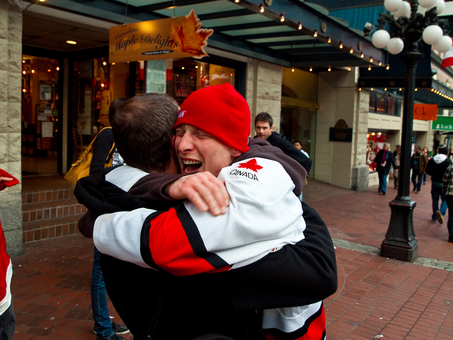 An emotional man grabs his friend in a burst of happiness in Gastown in Vancouver. People took to the streets to celebrate Canada's gold medal victory in Hockey over the United States.